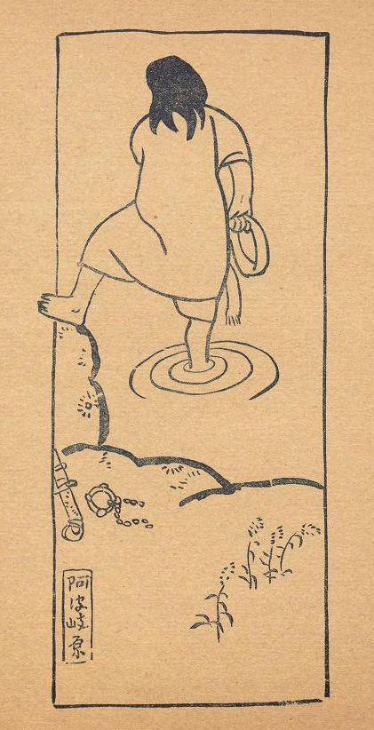 The god Izanagi purifies himself by bathing in the river.